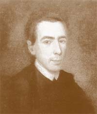 The roman catholic Priest and music Pedro Ramon Palacios Gil Arratia, knowed as Padre Sojo.